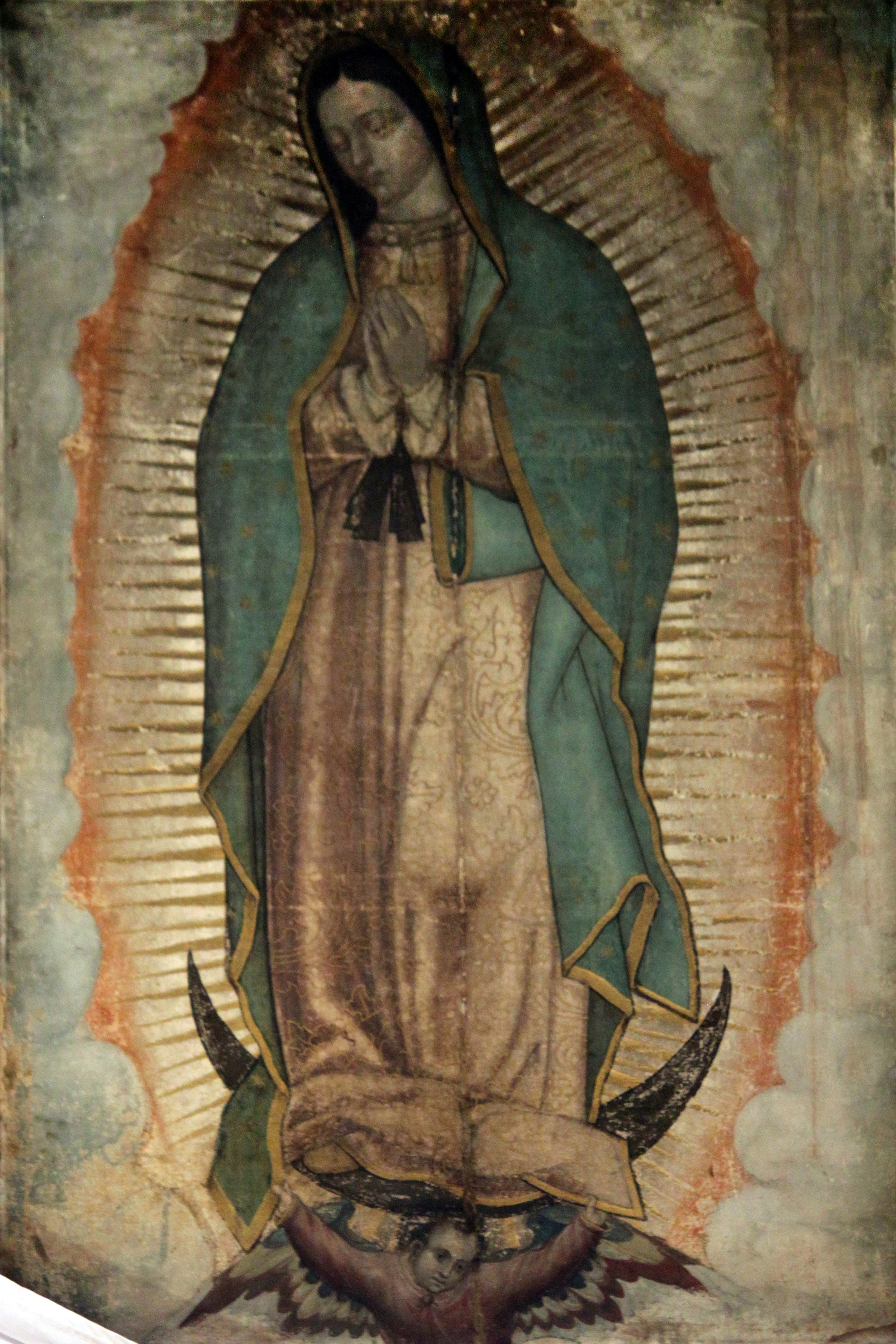 Original Picture of Our Lady of Guadalupe (also known as the Virgin of Guadalupe) shown in the Basilica of Our Lady of Guadalupe in México City. The Catholic Church considers the image of the Virgin of Guadalupe imprinted on the cloak of Juan Diego as a picture of supernatural origin.